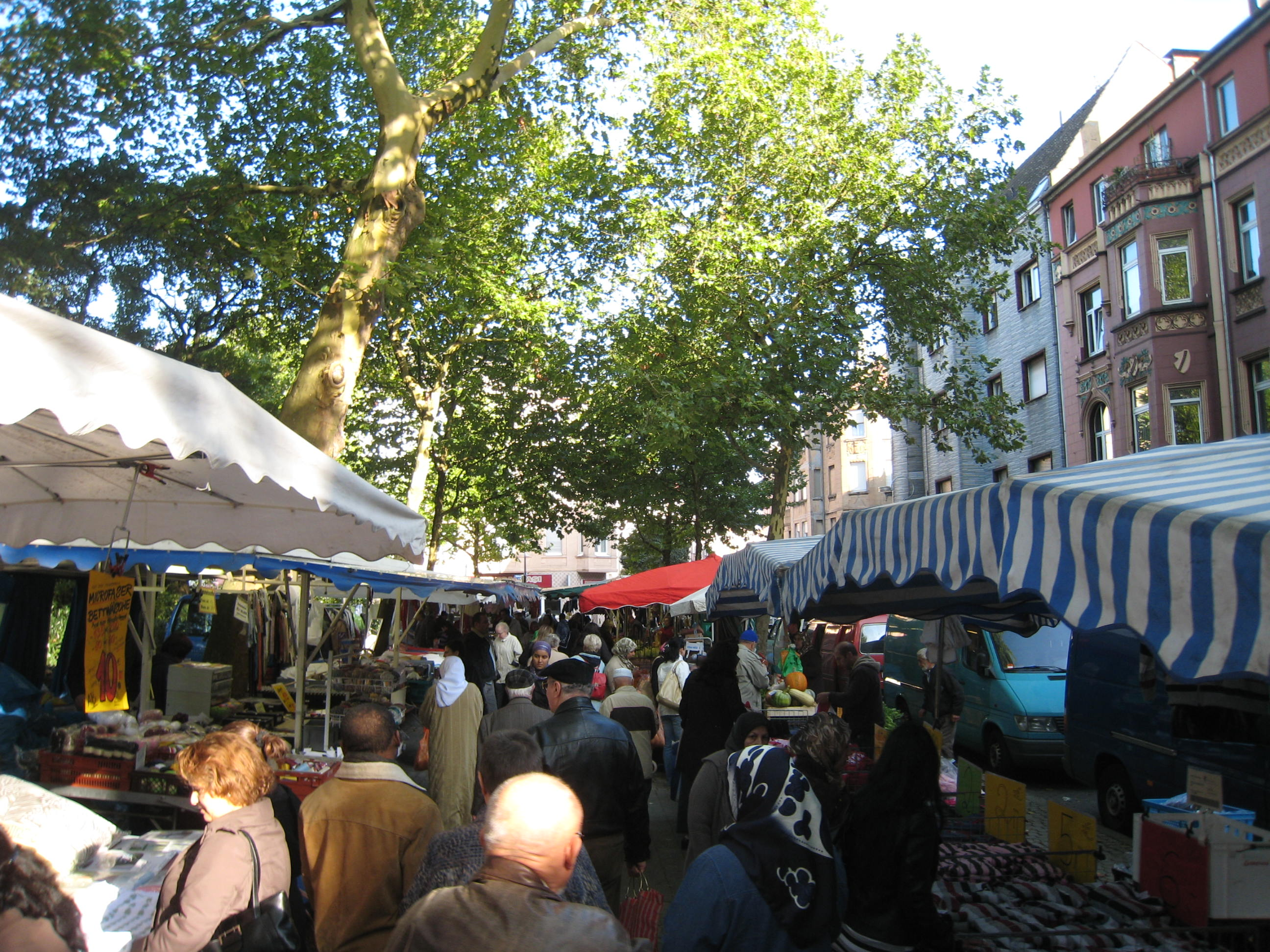 weekly market on Nordmarkt in Dortmund, Germany